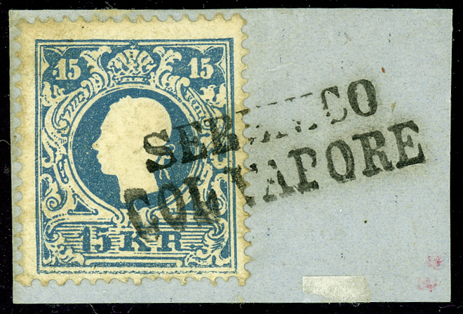 Austrian KK 15 kreuzer stamp, issue 1858 type I, cancelled in Italian SEBENICO COL VAPORE ( port marking for ship letter).